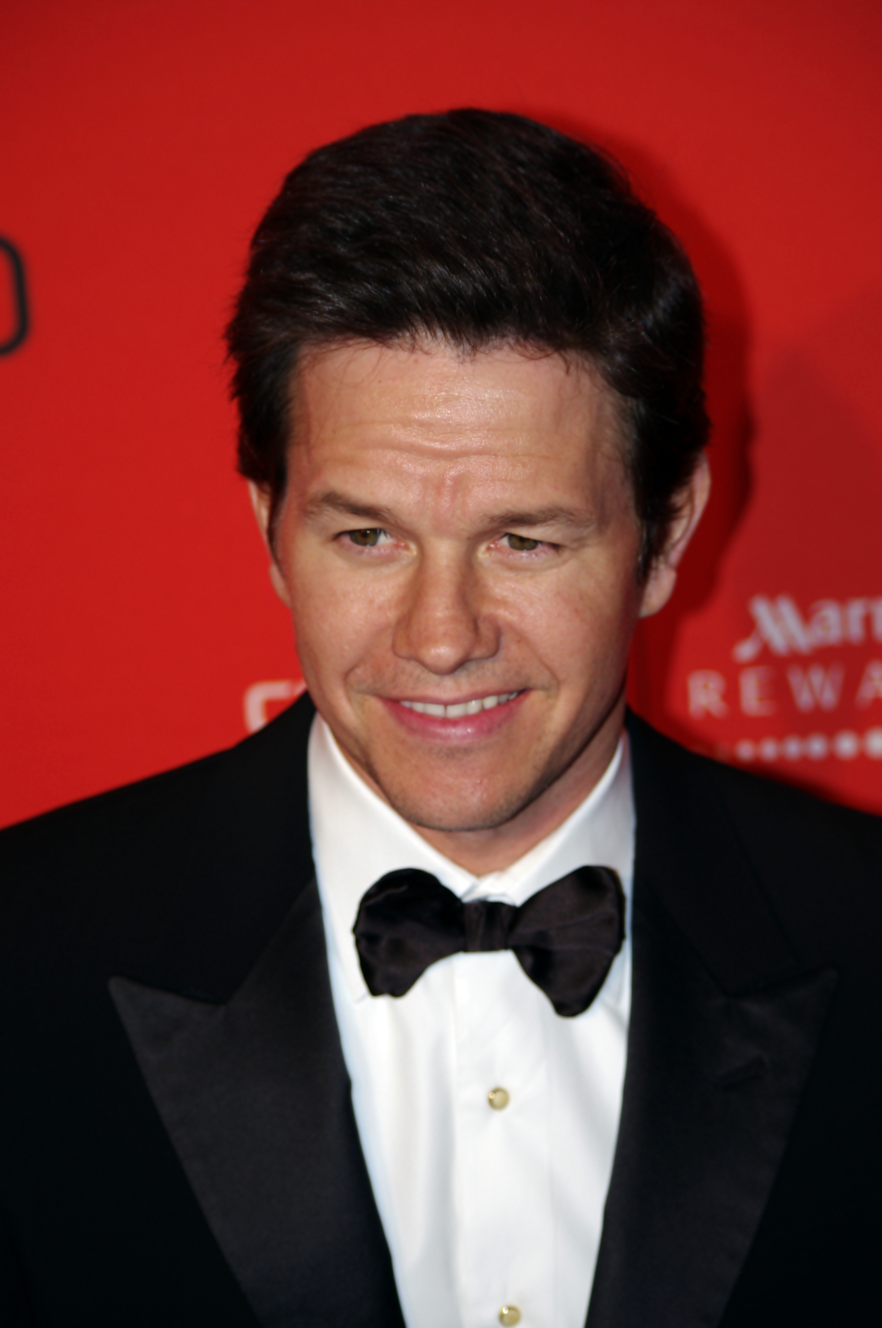 Marky Mark at the 2011 Time 100 gala.